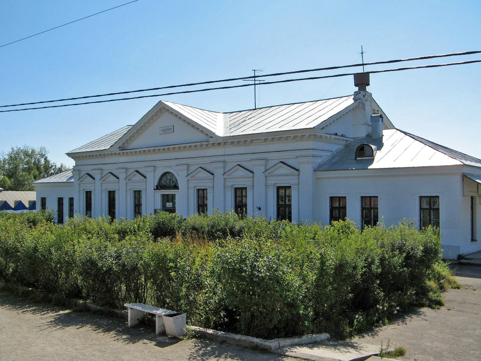 Kondopoga railway station, 2013